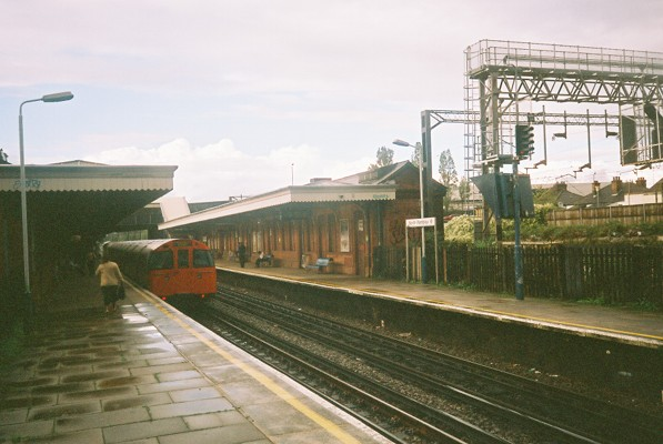 North Wembley station